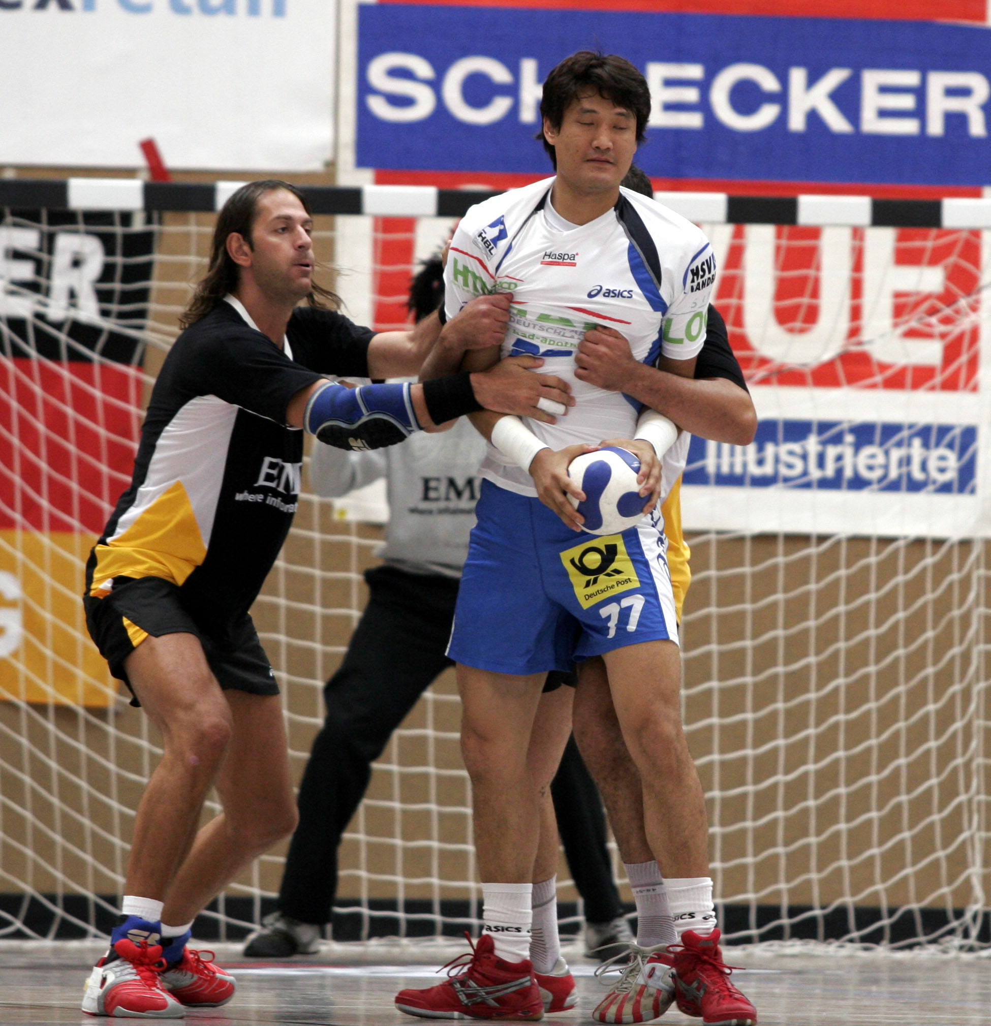 Kyung-Shin Yoon, Korean handball player from HSV Hamburg, during the Schlecker Cup 2007 in Ehingen (Germany)